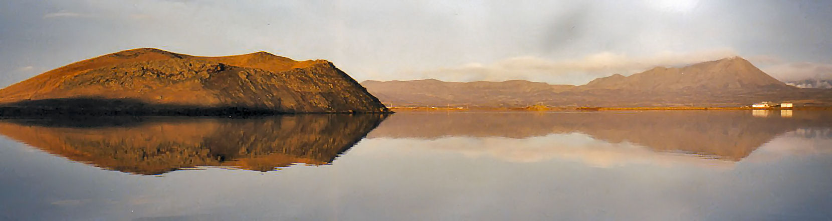 picture shot by uploader